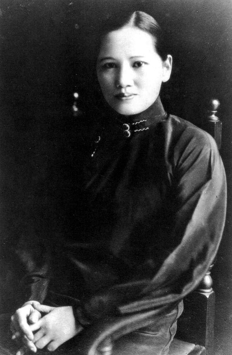 Soong Ching-ling (Song Qingling; Sung Ch'ing-ling) (1893 - 1981)